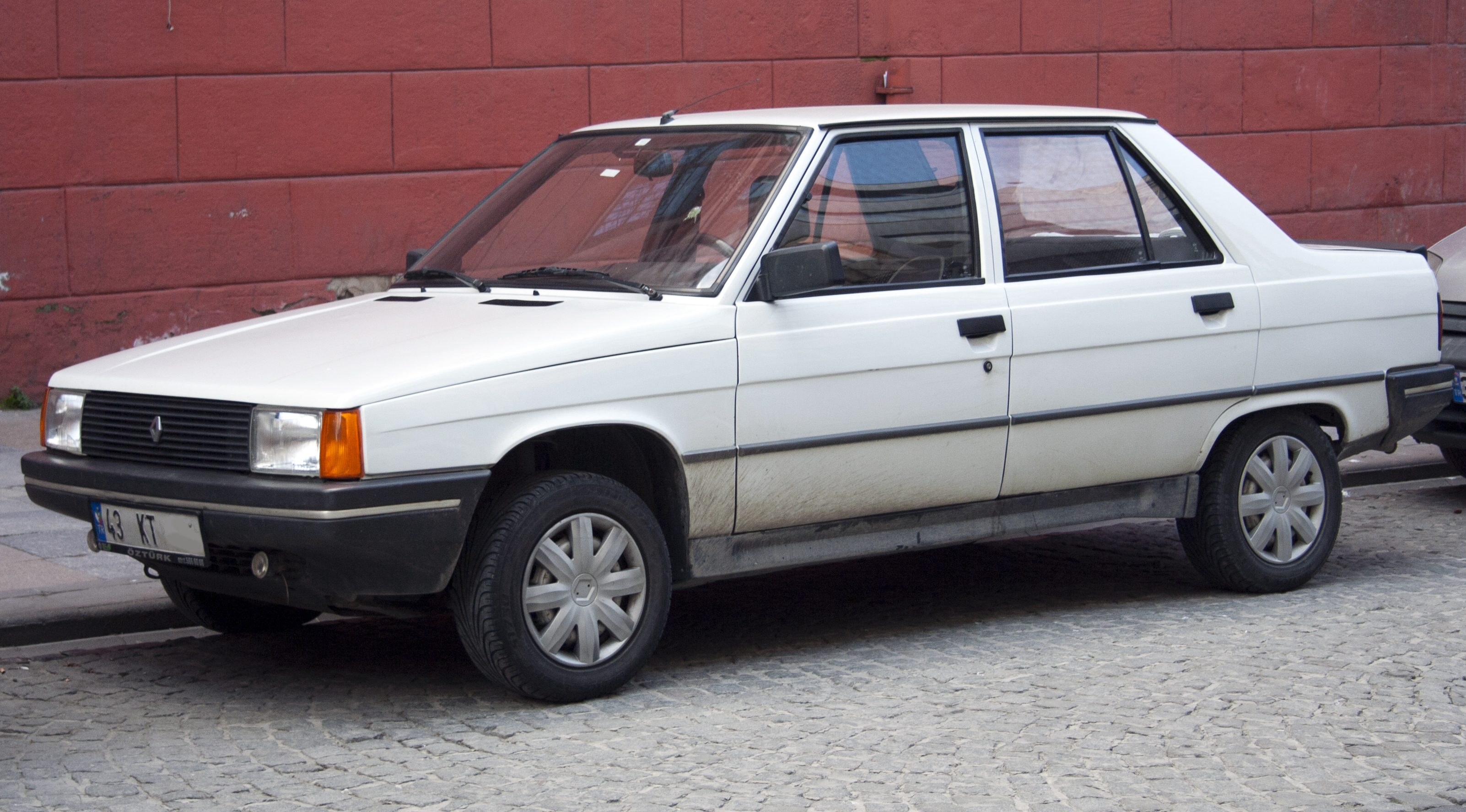 1992 Renault 9 Broadway in Istanbul